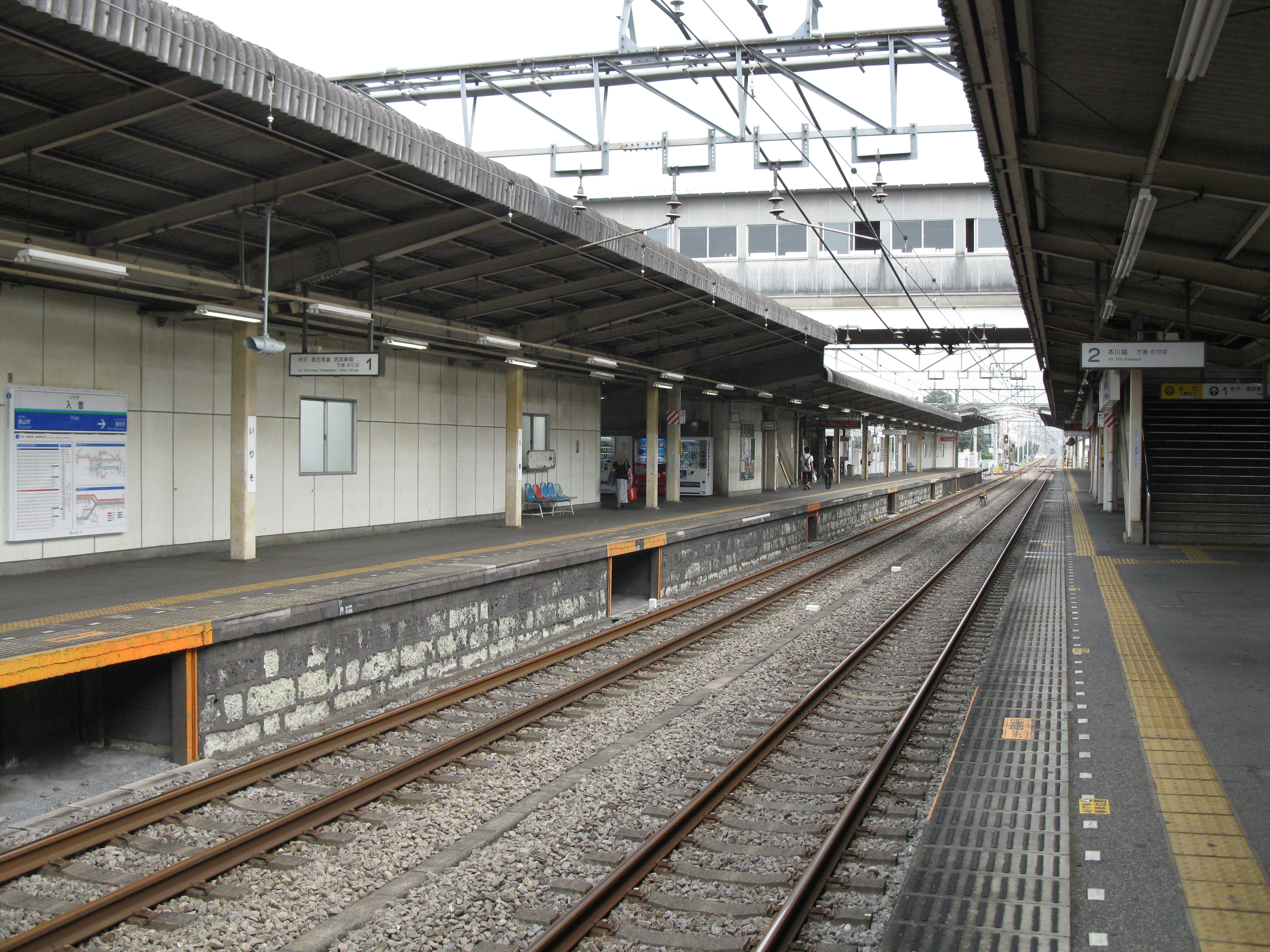 Iriso Station platform (Seibu Railway Shinjuku Line)